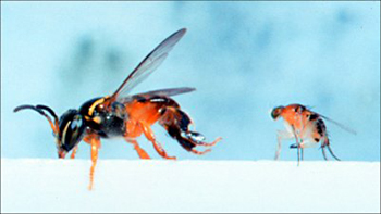 Female of Melaloncha acoma attacking host stingless bee at El Rodeo, Costa Rica